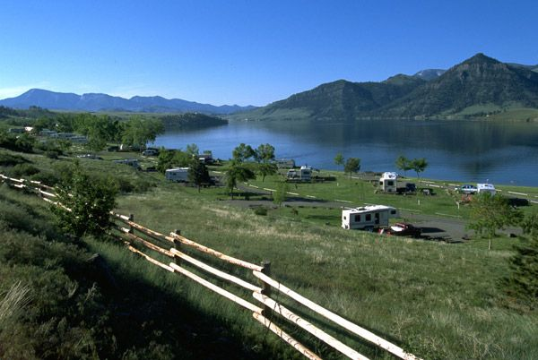 Holter Lake, also known as Holter Reservoir, behind Holter Dam in Lewis & Clark County, Montana, United States. Photograph probably taken in the 2000s. The Holter Lake campground managed by the Bureau of Land Management, U.S. Dept. of the Interior, can be seen in the foreground.